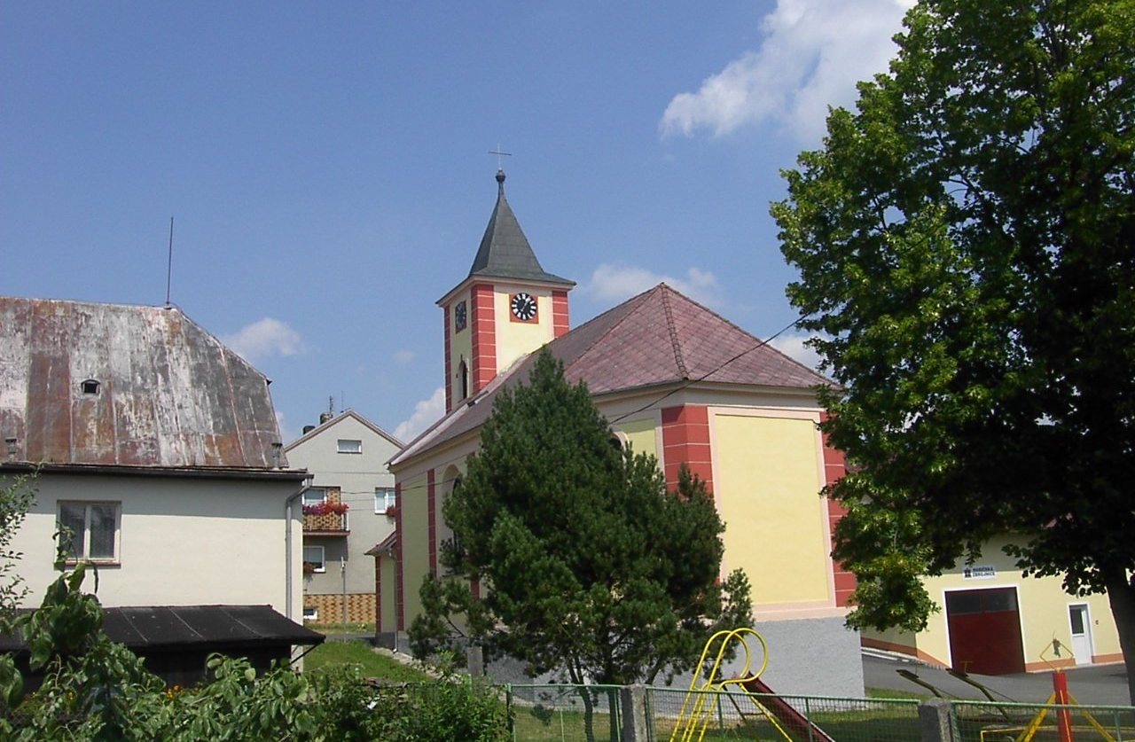 St Wenceslas chapel in Újezd, Domažlice District, Czech Republic.